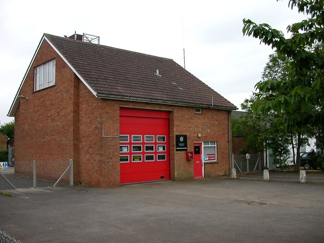 Woodford Halse. Fire Station on Byfield Road